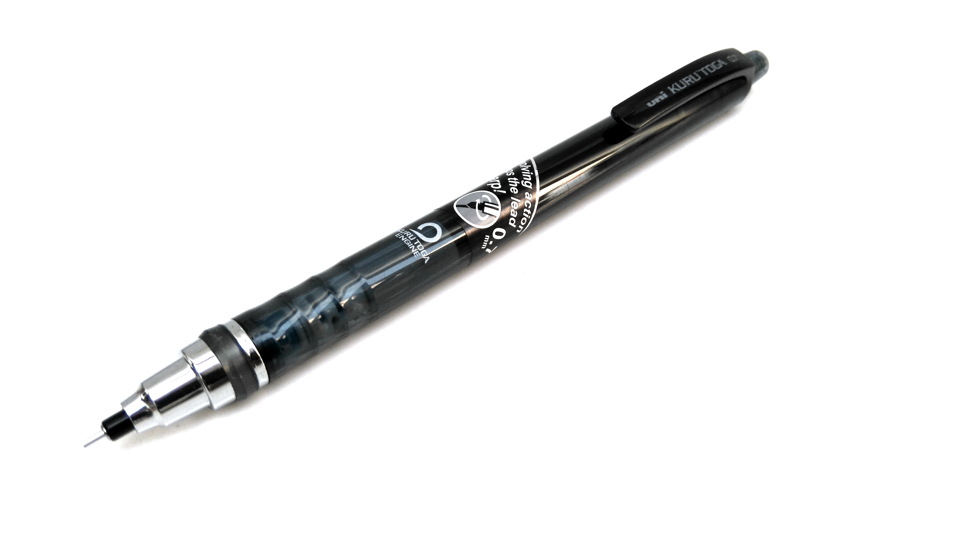 Uni Kuru Toga 0.7. Blue and black.